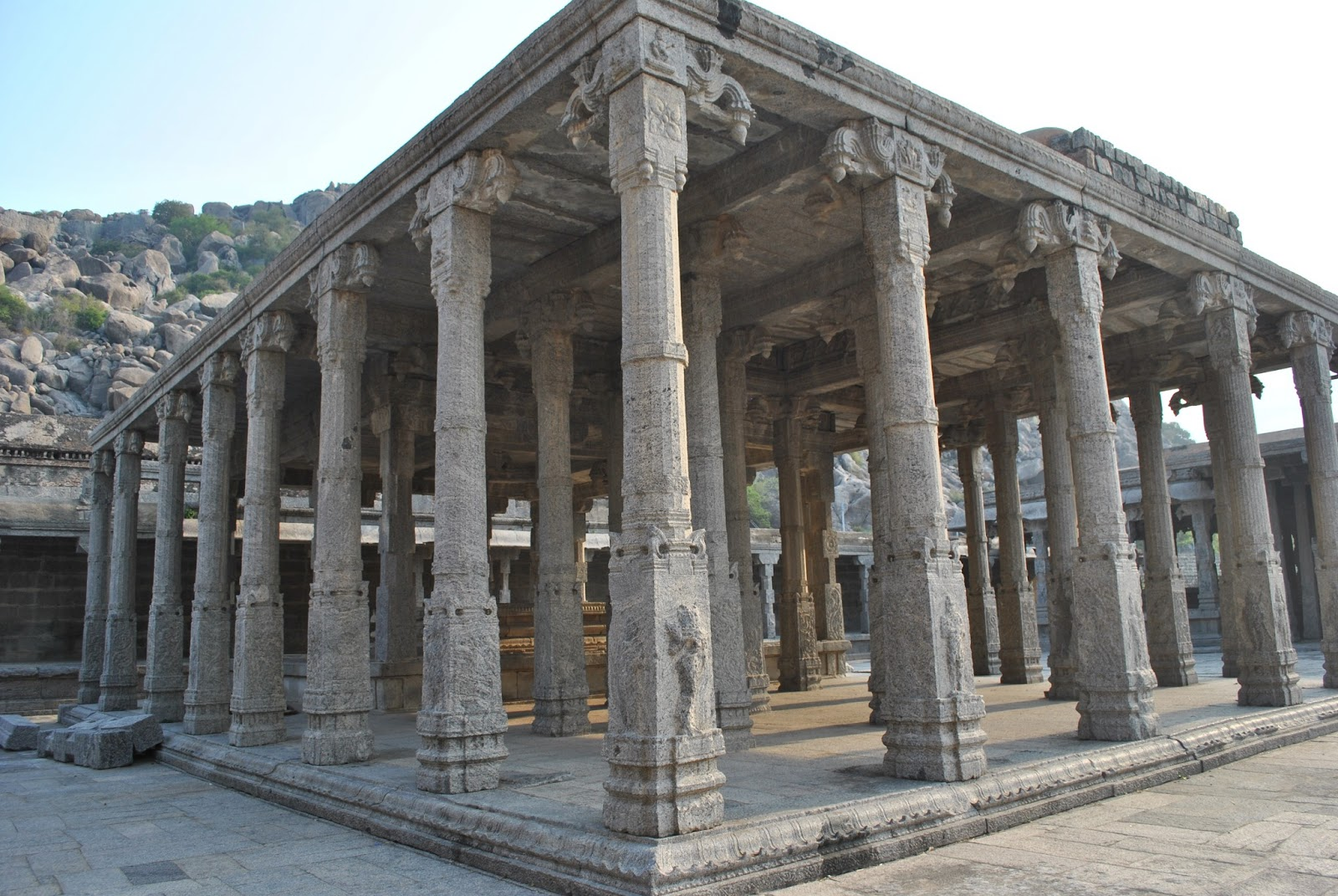 my area in gingee